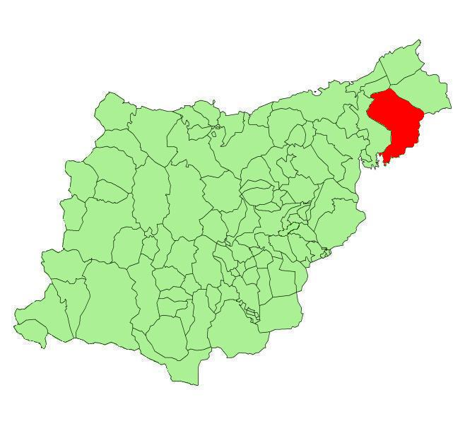 Oiartzun municipality in the province of Guipuzcoa